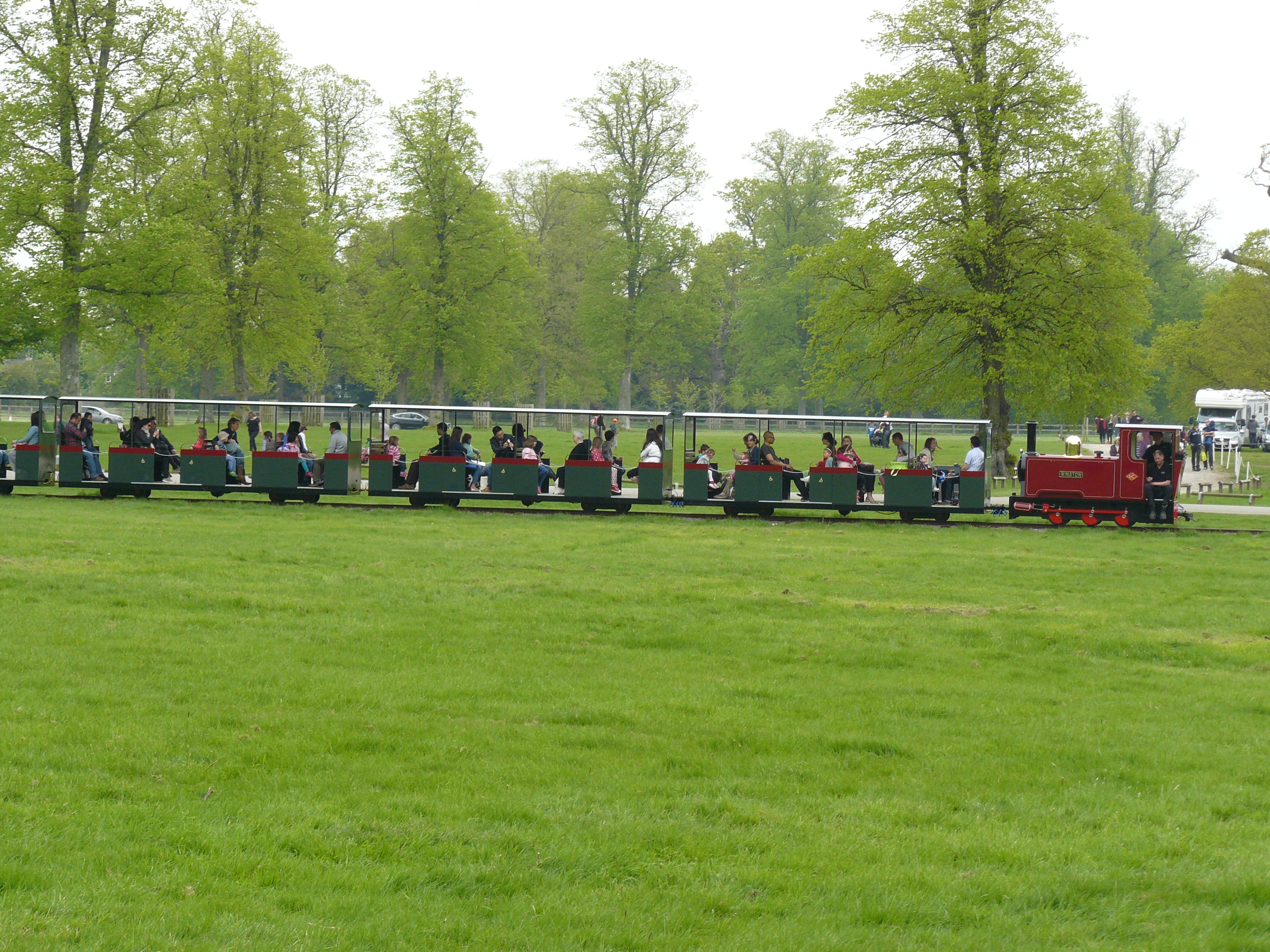 Blenheim Palace railway train